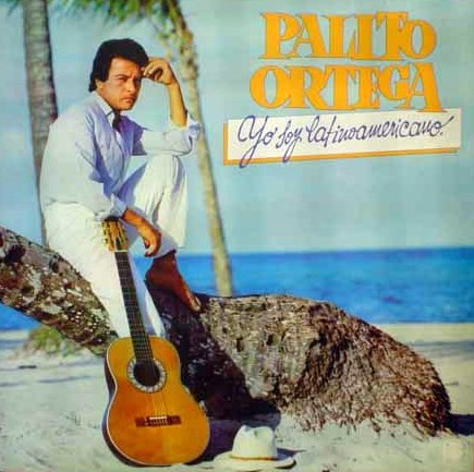 Palito Ortega